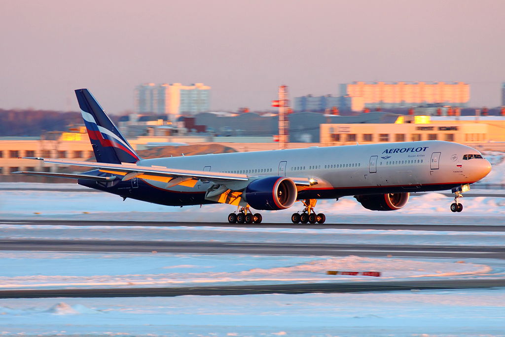 An Aeroflot - Russian Airlines Boeing 777-3M0/ER lands at Sheremetyevo Airport (SVO / UUEE)